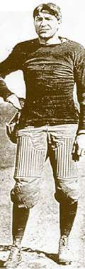 William "Lone Star" Dietz, as a member of the Carlisle football team between 1909-1912.